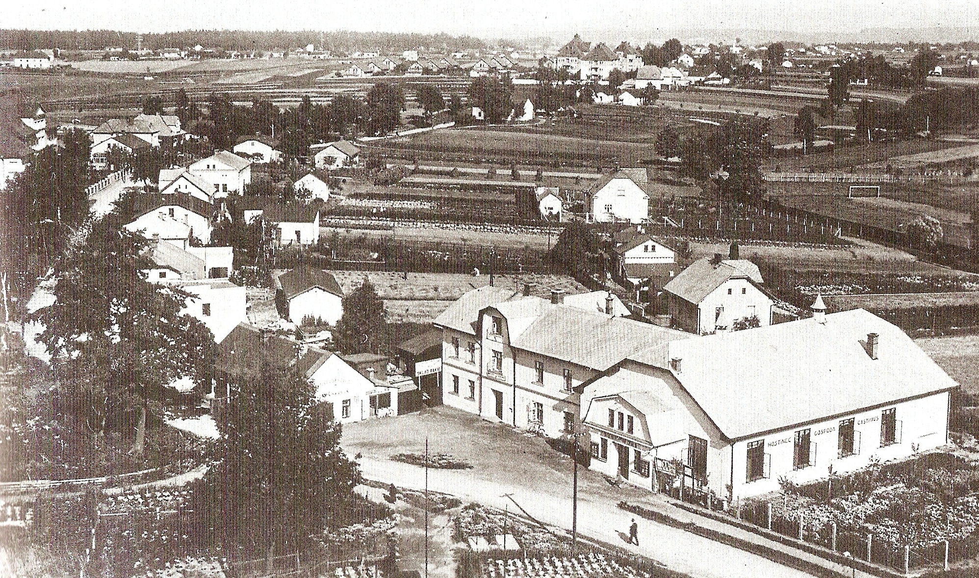 Horní Suchá in 1938